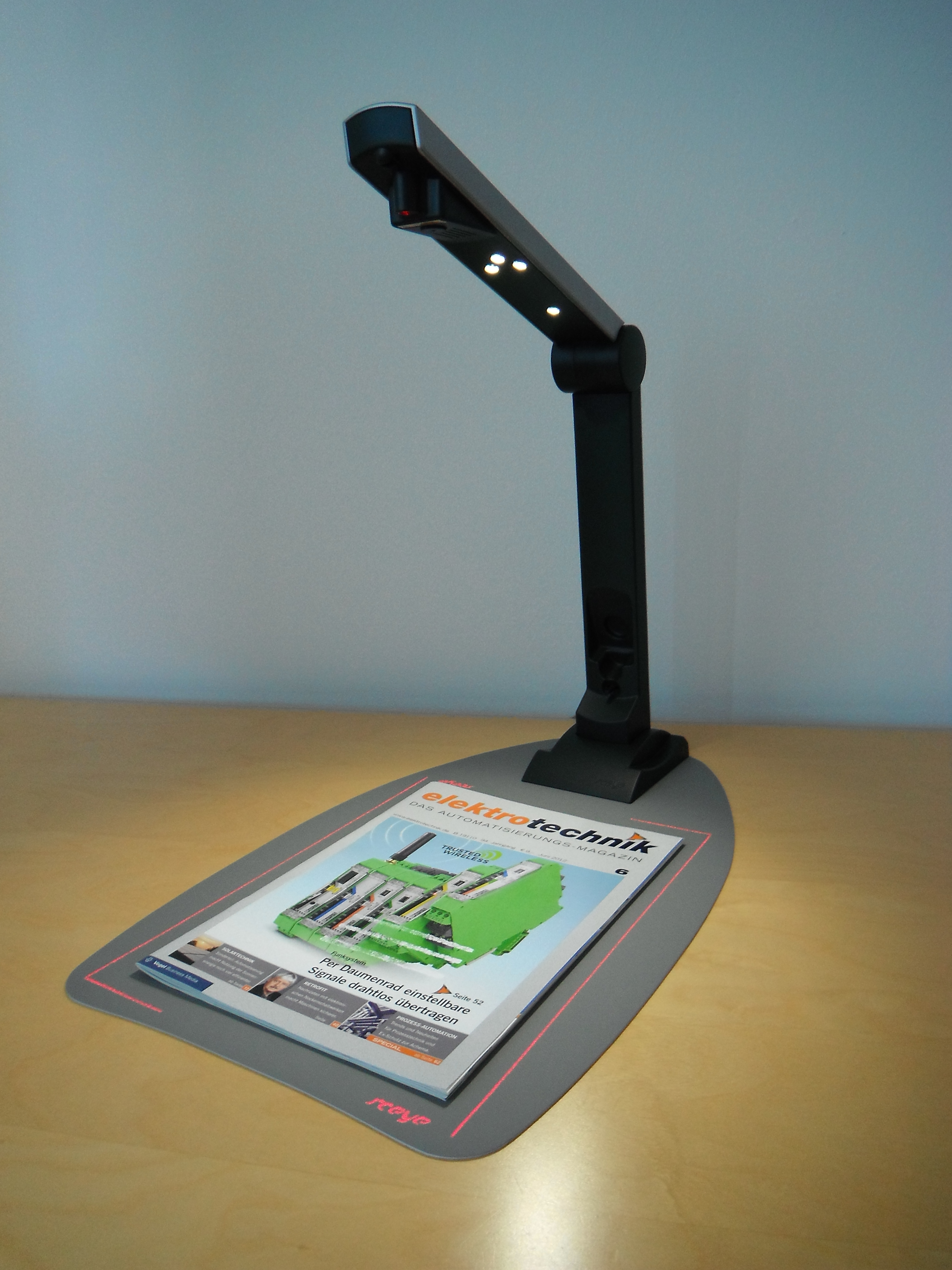 This is a picture of a new age "document scanner", which digitizes images by taking a high resolution photo of them, and processes them automatically through software. The model is called sceyeX, the producer: SilverCreations Ag, Germany.